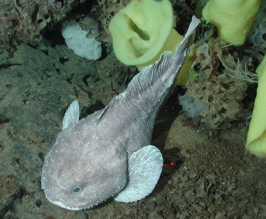 Deep-sea blob sculpin (Psychrolutes phrictus); yellow Picasso sponge (Staurocalyptus sp.); and white ruffle sponge (Ferrea sp.) at the Davidson Seamount (1317 meters depth). The blob sculpin was first captured in the late 1960s off California; but not scientifically named until 1978. Largest specimens are often marked with rings that may be from squid or octopus tentacle sucker marks. Blob sculpins are opportunistic feeders; most commonly eating sea pens; snails; and crabs.